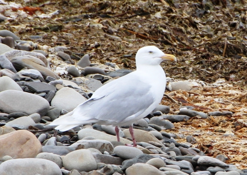 Polar gull (Larus hyperboreus) at Vestpynten, just west opf Svalbard Airport and Longyearbyen, Spitsbergen